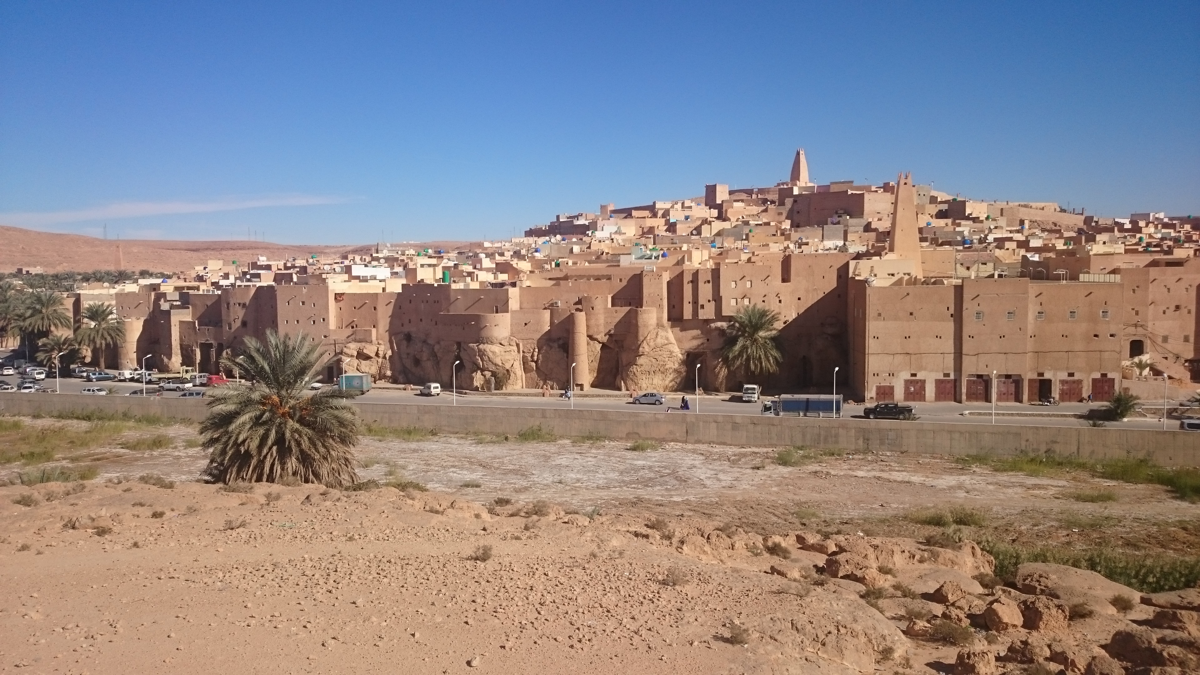 the western wall and gate of the old city of Bounoura, the Ksra of Bounoura is one of the 5 ksars of Ghardaia